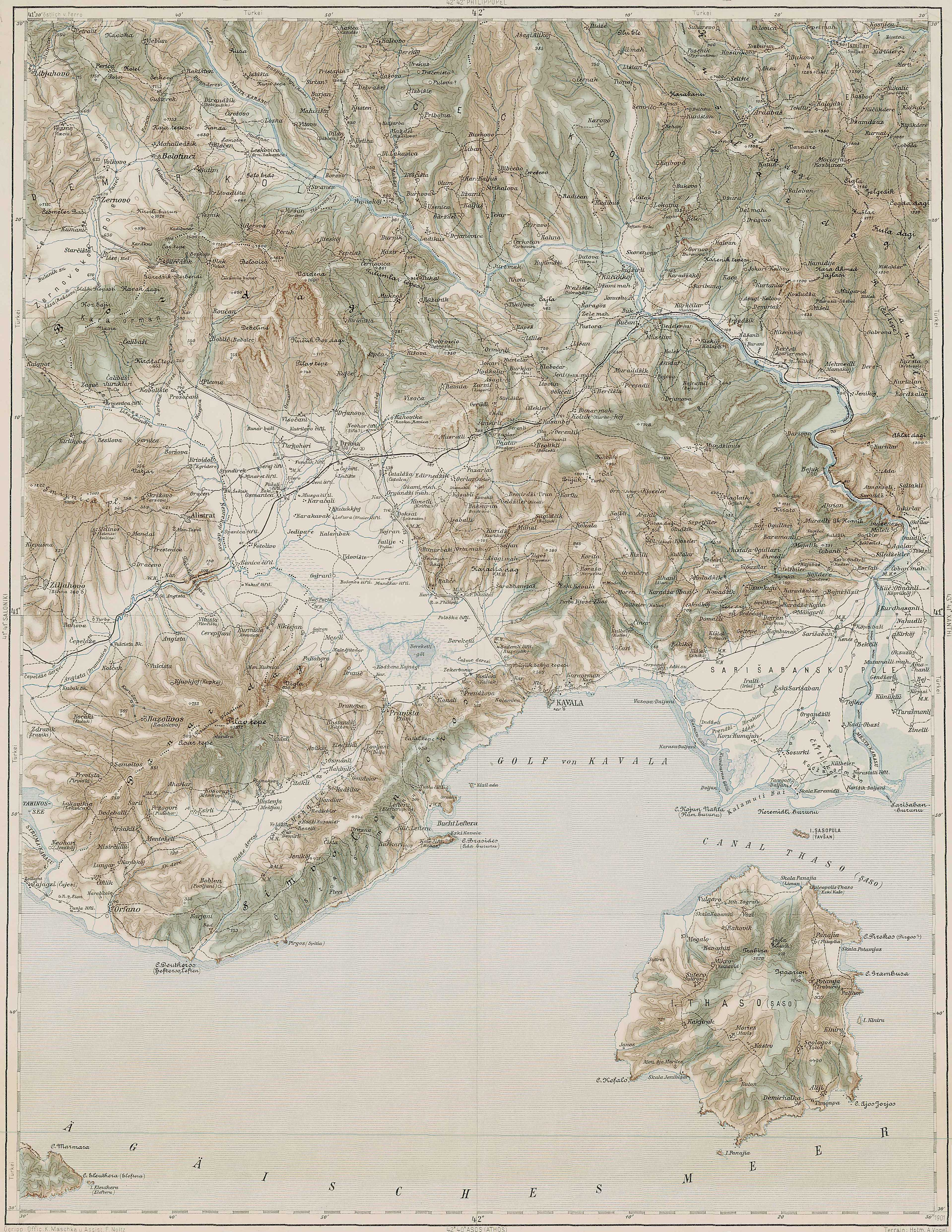 3rd Military Mapping Survey of Austria-Hungary - Kavala